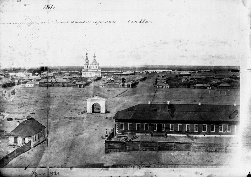 Vintage photo of Semipalatinsk